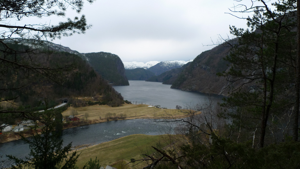 Bolstadfjorden, Hordaland, Norway